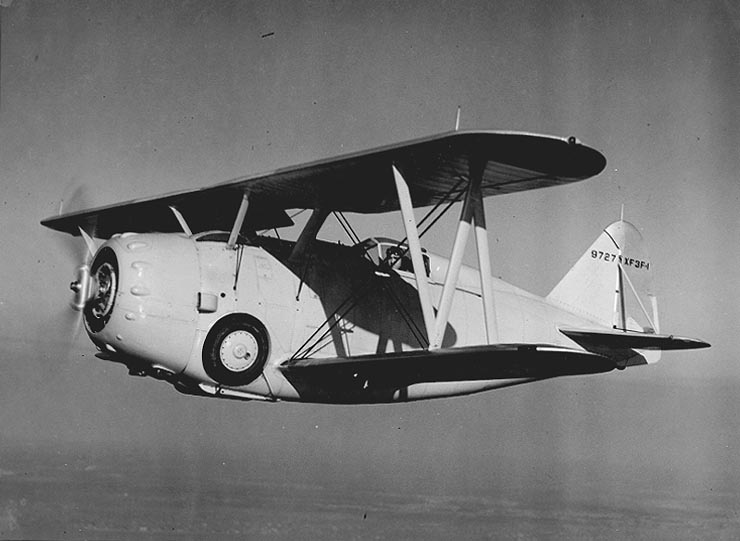 A U.S. Navy Grumman XF3F-1 fighter (BuNo 9727) in flight, 10 January 1936. The date indicates that this is the second XF3F-1 prototype, which had the same Bureau Number as the first.